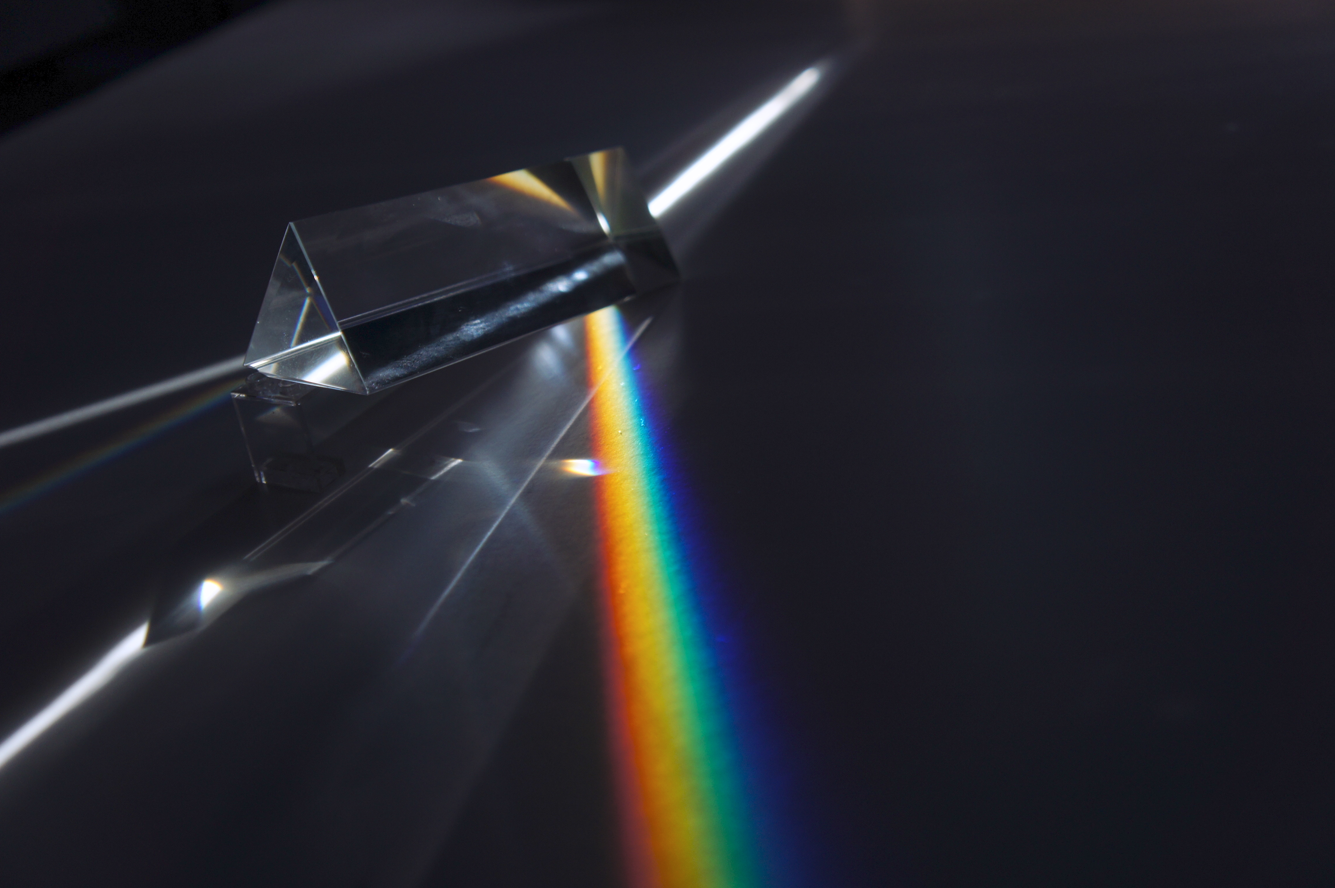 Some alternate images of the dispersive prism in File:Dispersive prism.png.